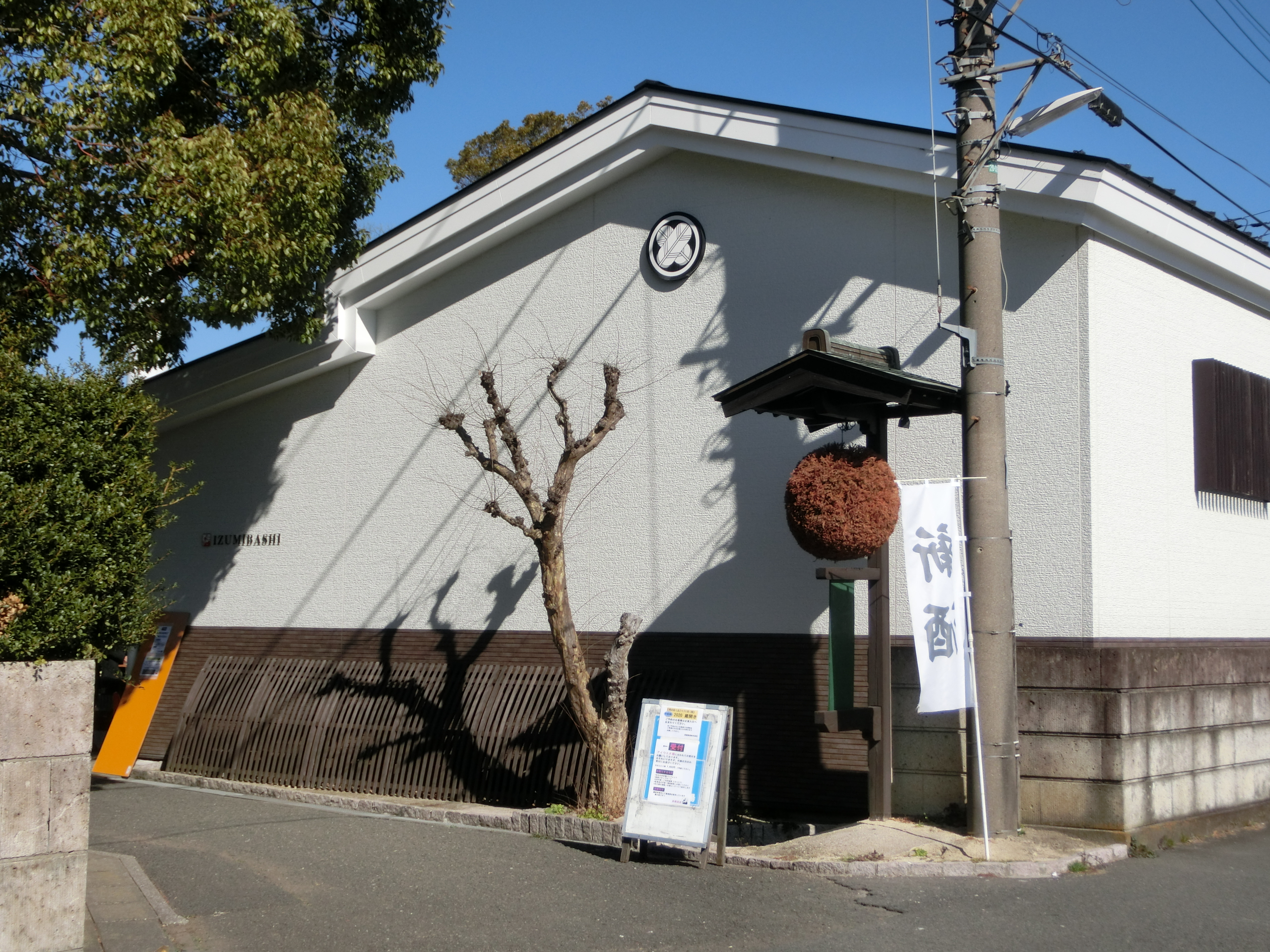 Izumibashi Syuzo Head Office